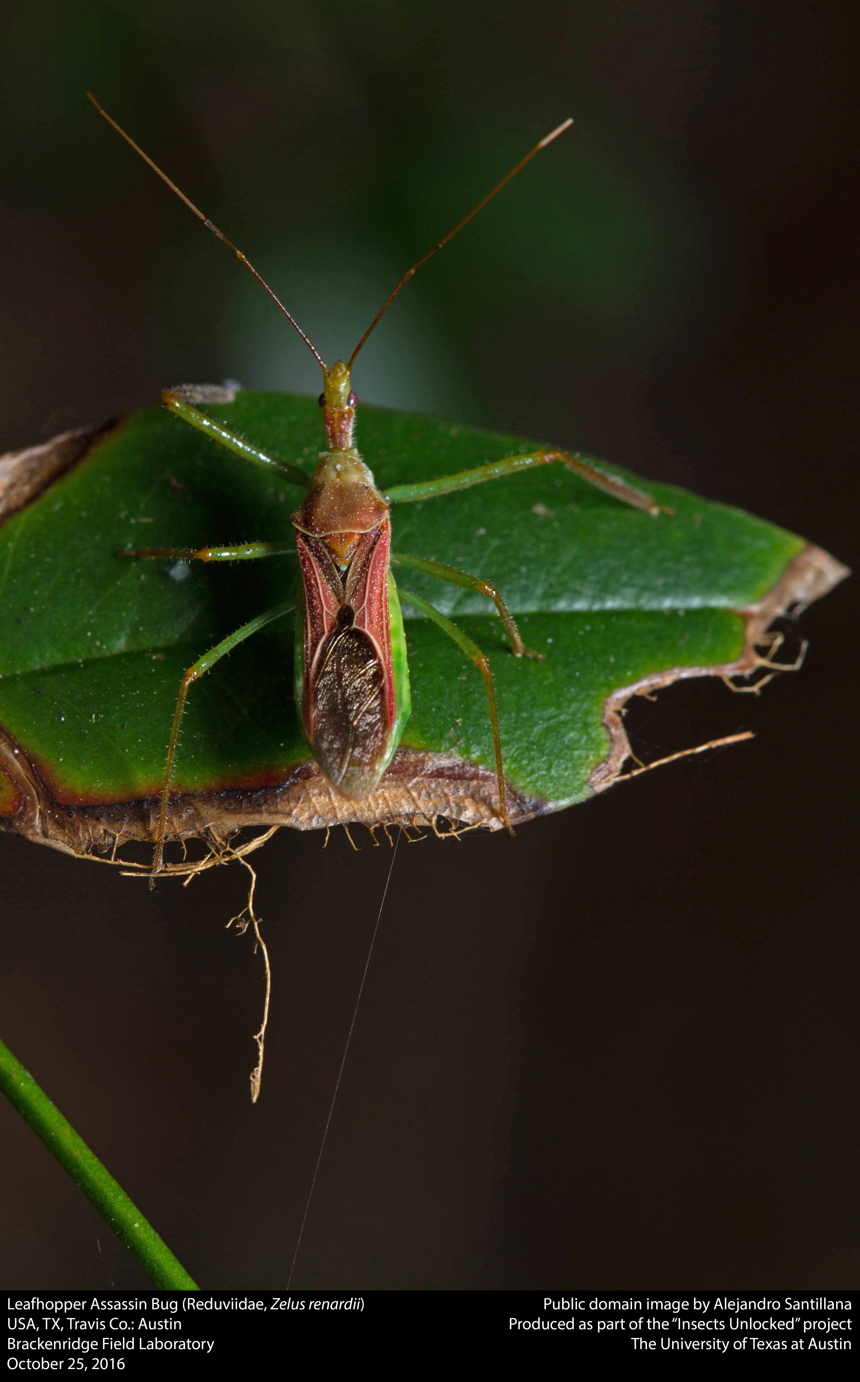 USA, TX, Travis Co.: Austin Brackenridge Field Laboratory 25-x-2016